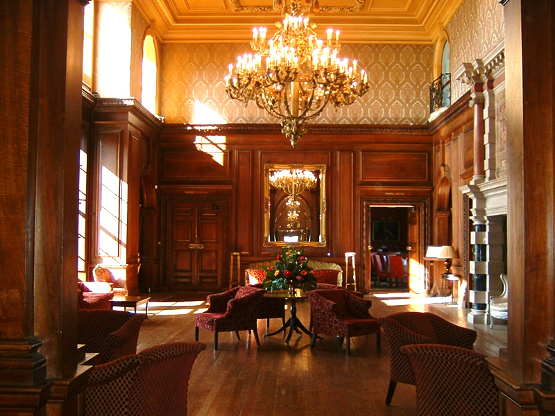 A beautiful internal shot of the great hall.